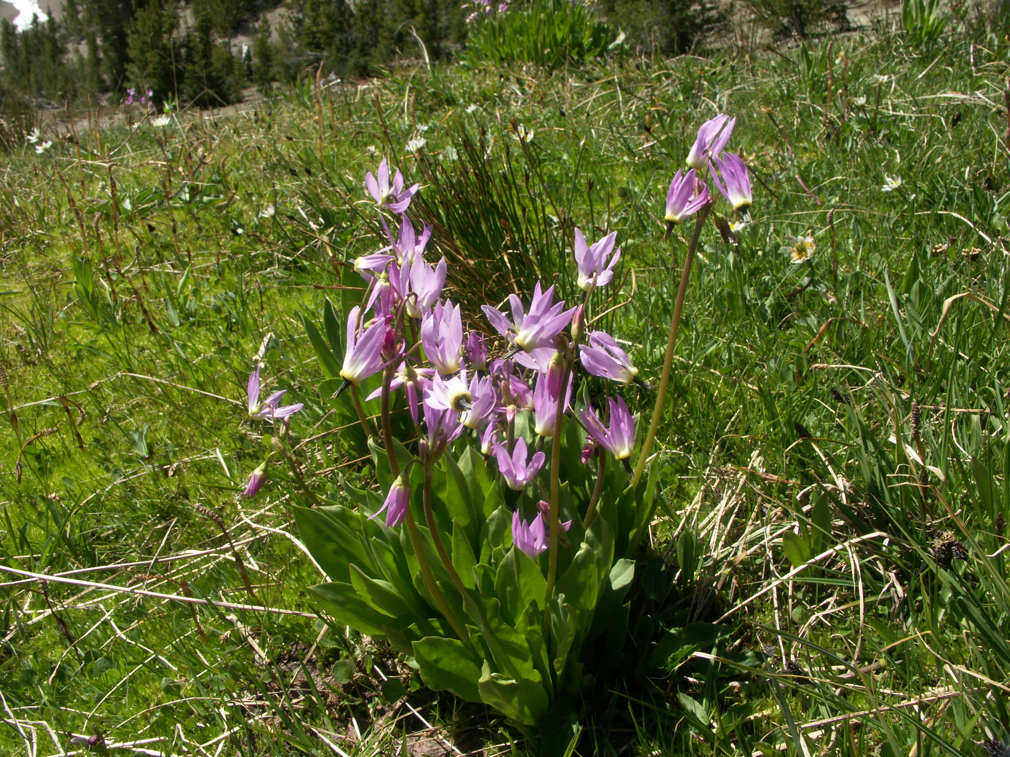 Wildflower, Idaho High Altitude Shooting Star(Dodecatheon Jeffreyi), at 9000' on Mt Jordan in Idaho